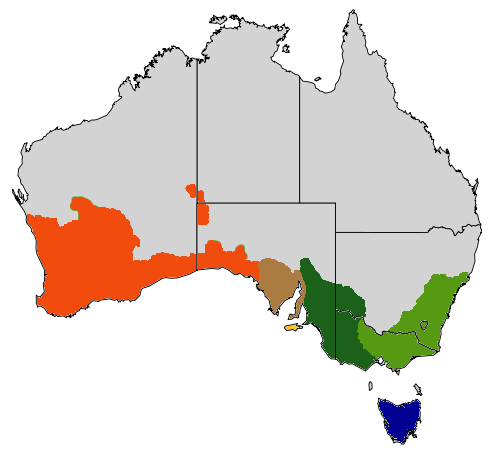 Distribution of Grey Currawong. Subspecies in different colours. plumbea red. intermedia brown, halmaturina apricot, melanoptera dark green, versicolor green, arguta navy blue. Information sourced fron: Higgins, Peter Jeffrey; Peter, John M.; Cowling SJ (eds.) (2006) Handbook of Australian, New Zealand and Antarctic Birds. Vol. 7: Boatbill to Starlings, Melbourne: Oxford University Press, p. 567-77 ISBN: 978-0195539967. . Base map of Australia was File:Australia map, States.svg